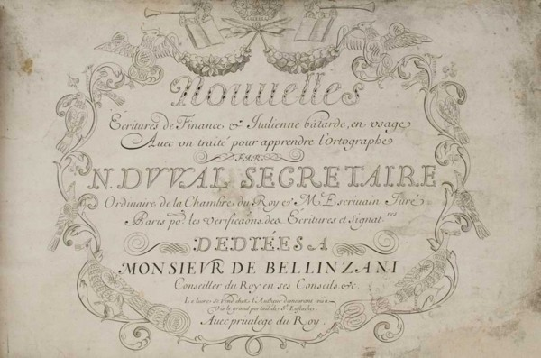 Titlepage of Duval's "Nouvelles escriture de finances" (c. 1670)